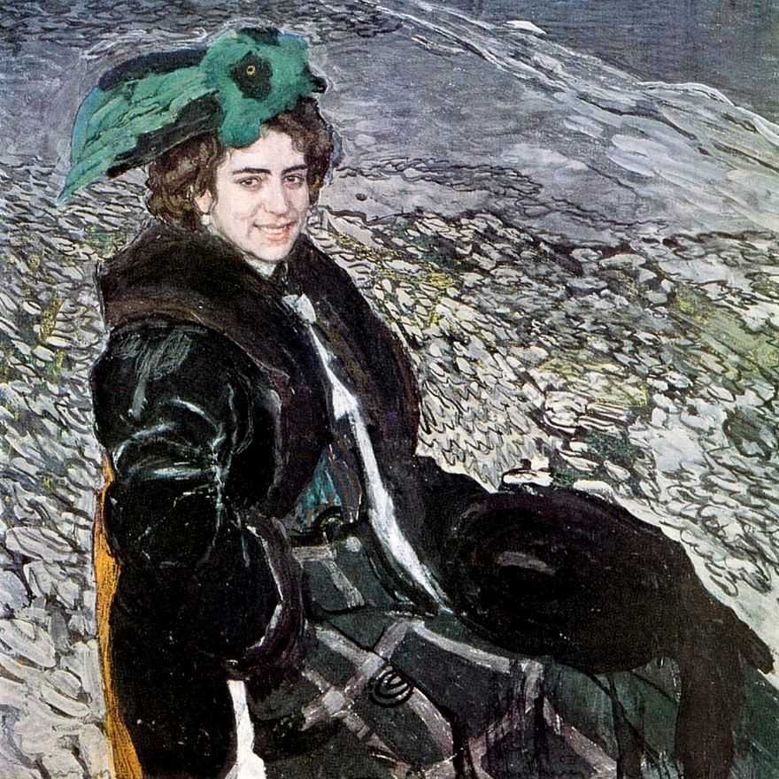 portrait of dancer Elena Smirnova by Alexandr Golovin 1910